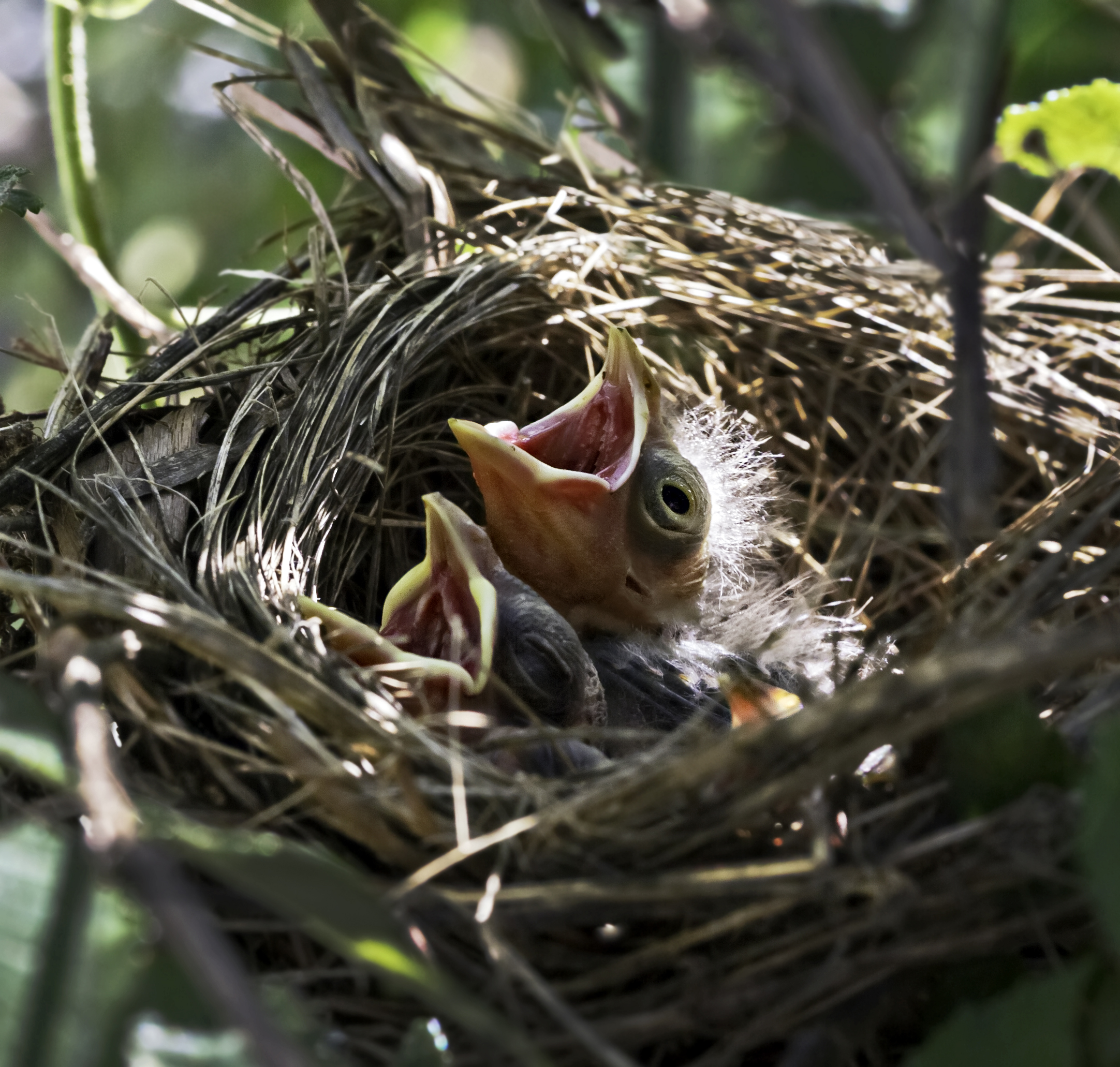 Recently hatched red cardinals (Cardinalis cardinali)